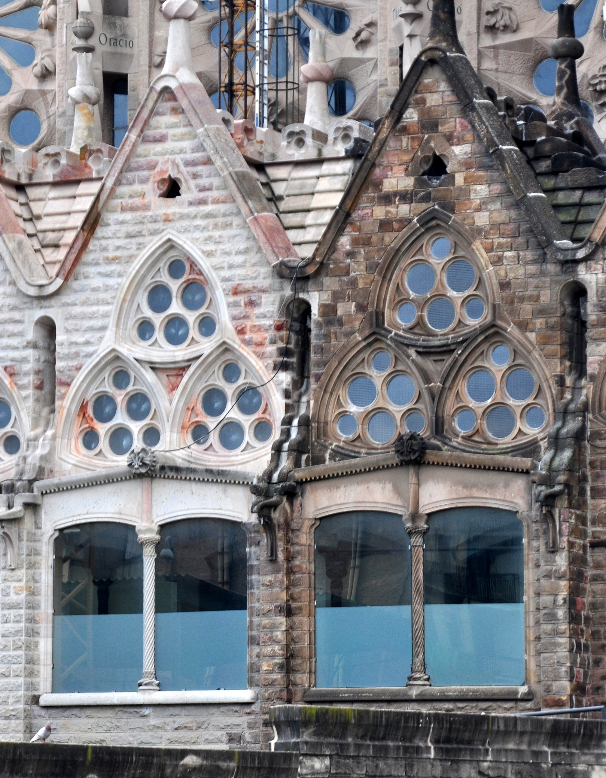 Photograph showing the differences between the older and newer parts of the Sagrada Família, Barcelona. See more at